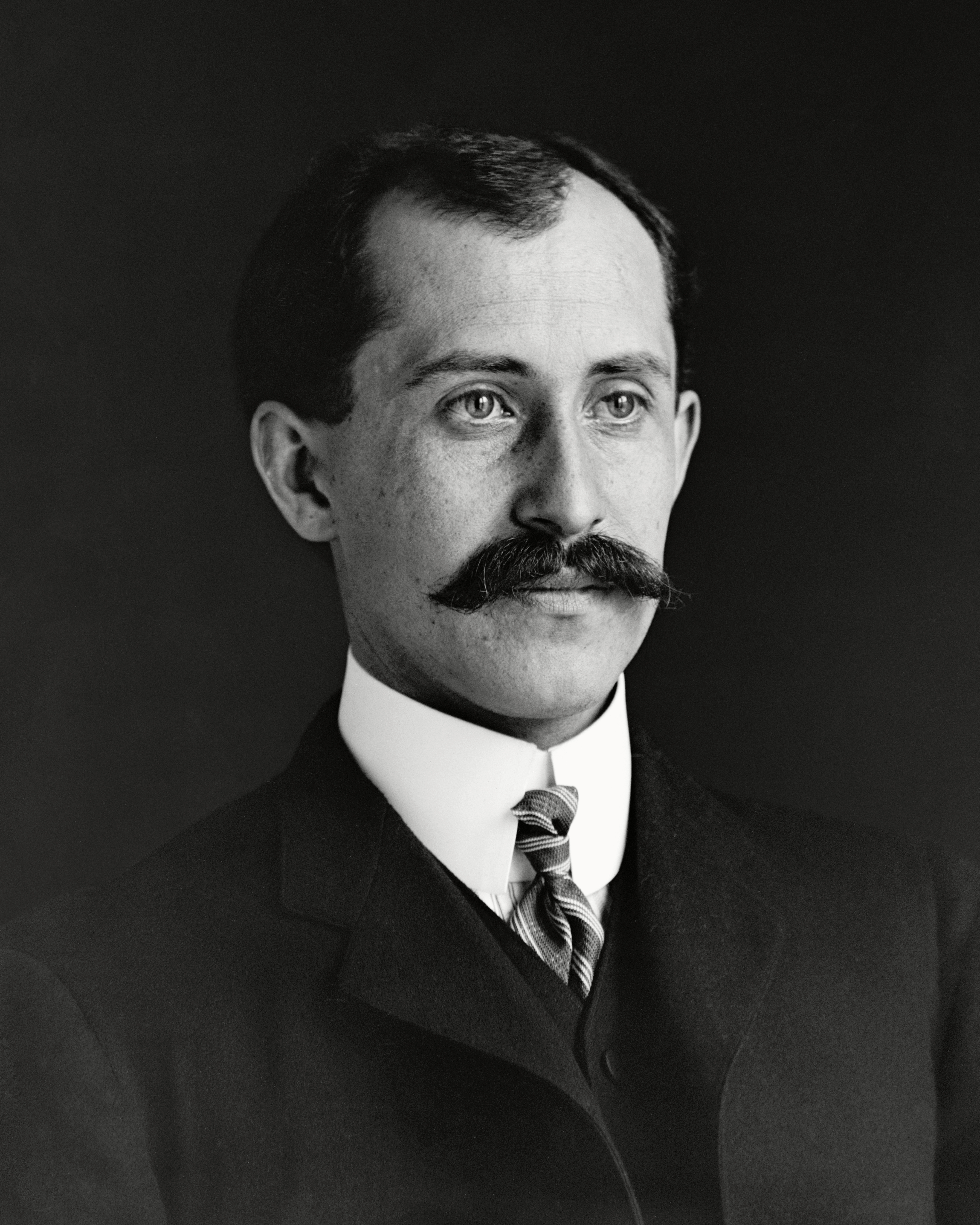 Orville Wright, age 34, head and shoulders, with mustache